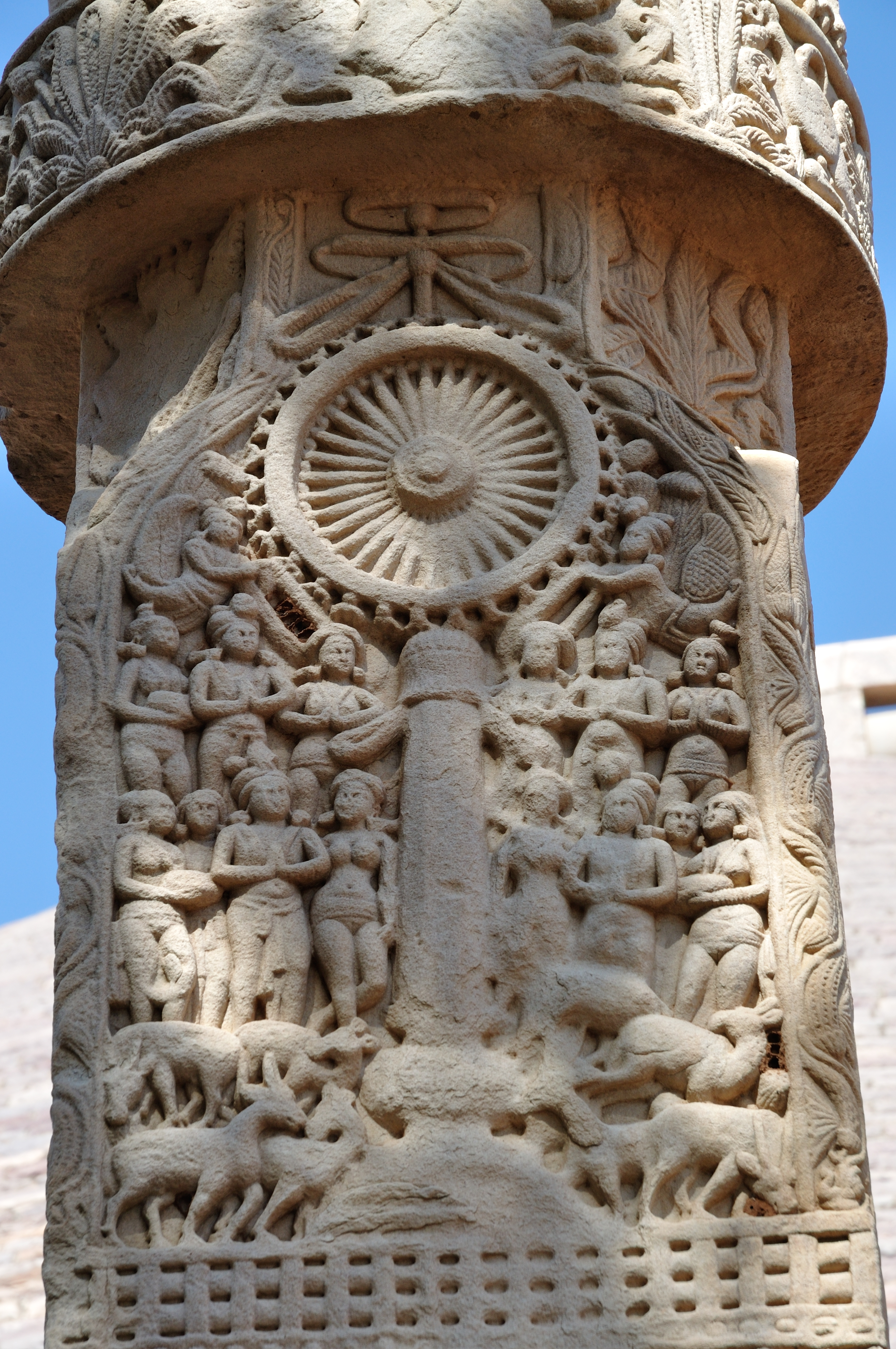 Buddhist monument at the Sanchi Hill, Raisen district of the state of Madhya Pradesh, India.